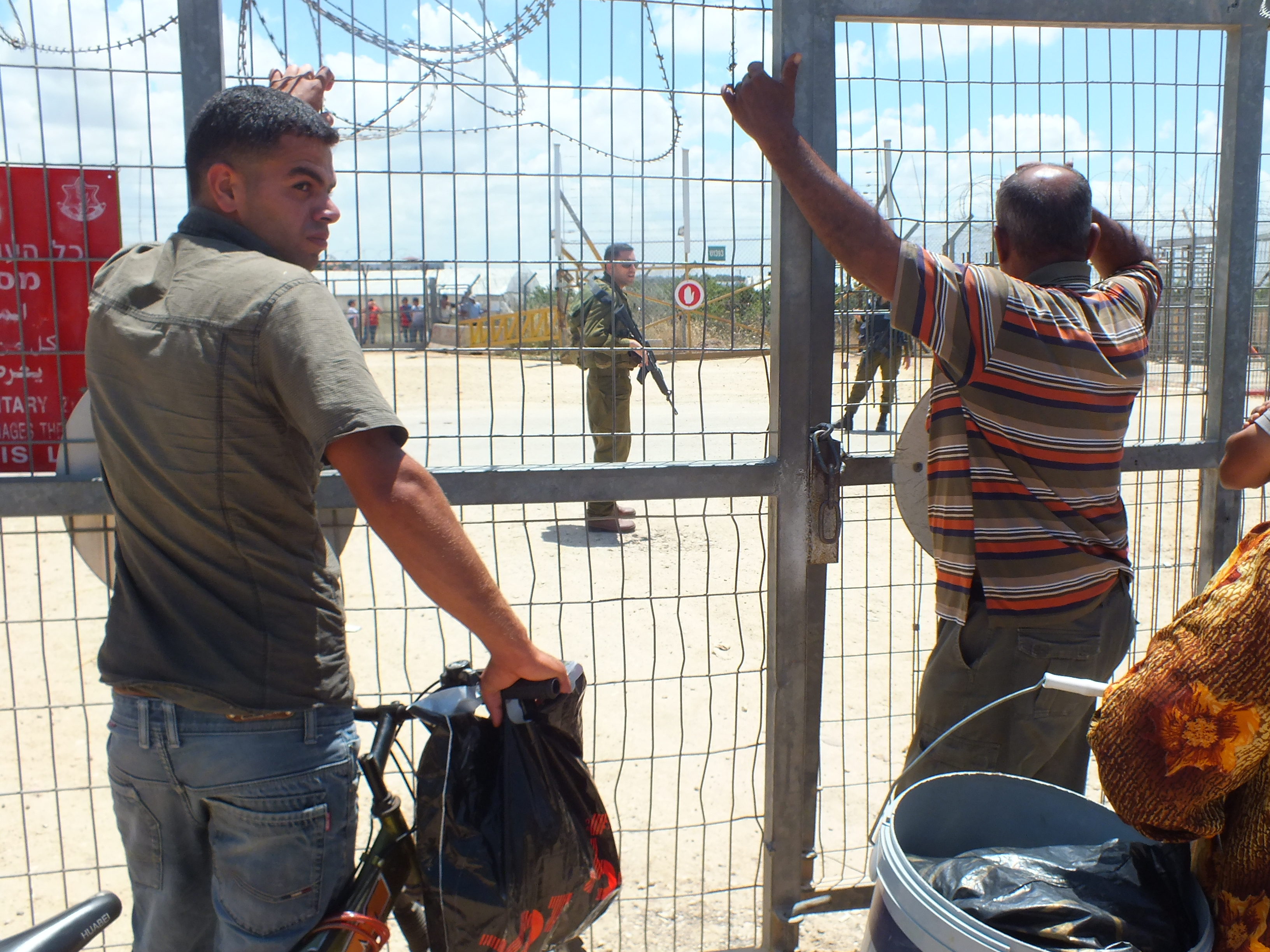 These people wait in groups of five for the Israeli soldiers to get them through the “agricultural passage” in the Qalqilya-envelope fence, opening 1pm sharp, and would be bound to return on the same day when the gate operates again, some 4 hours later. Scarce few are granted an overnight pass.